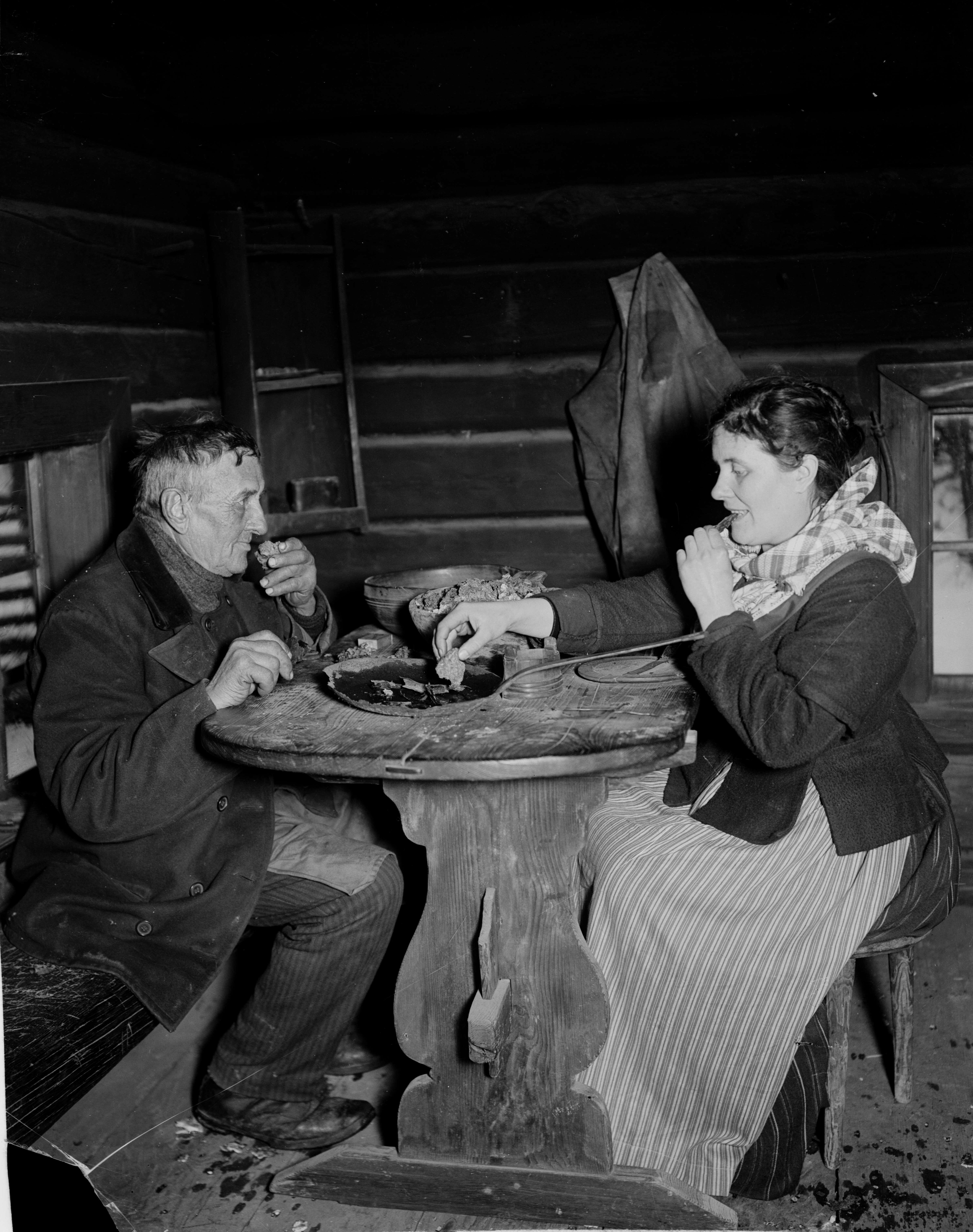 Eating porridge and fried pork in a Värmland-Finnish smokehouse. The pork pieces are dipped in the frying pan, and for each mouthbite of porridge goes a piece of pork held in the other hand. Behind the pan is the porridgecup and at the back of the table a turned wooden barrel of milk to enjoy for dessert.